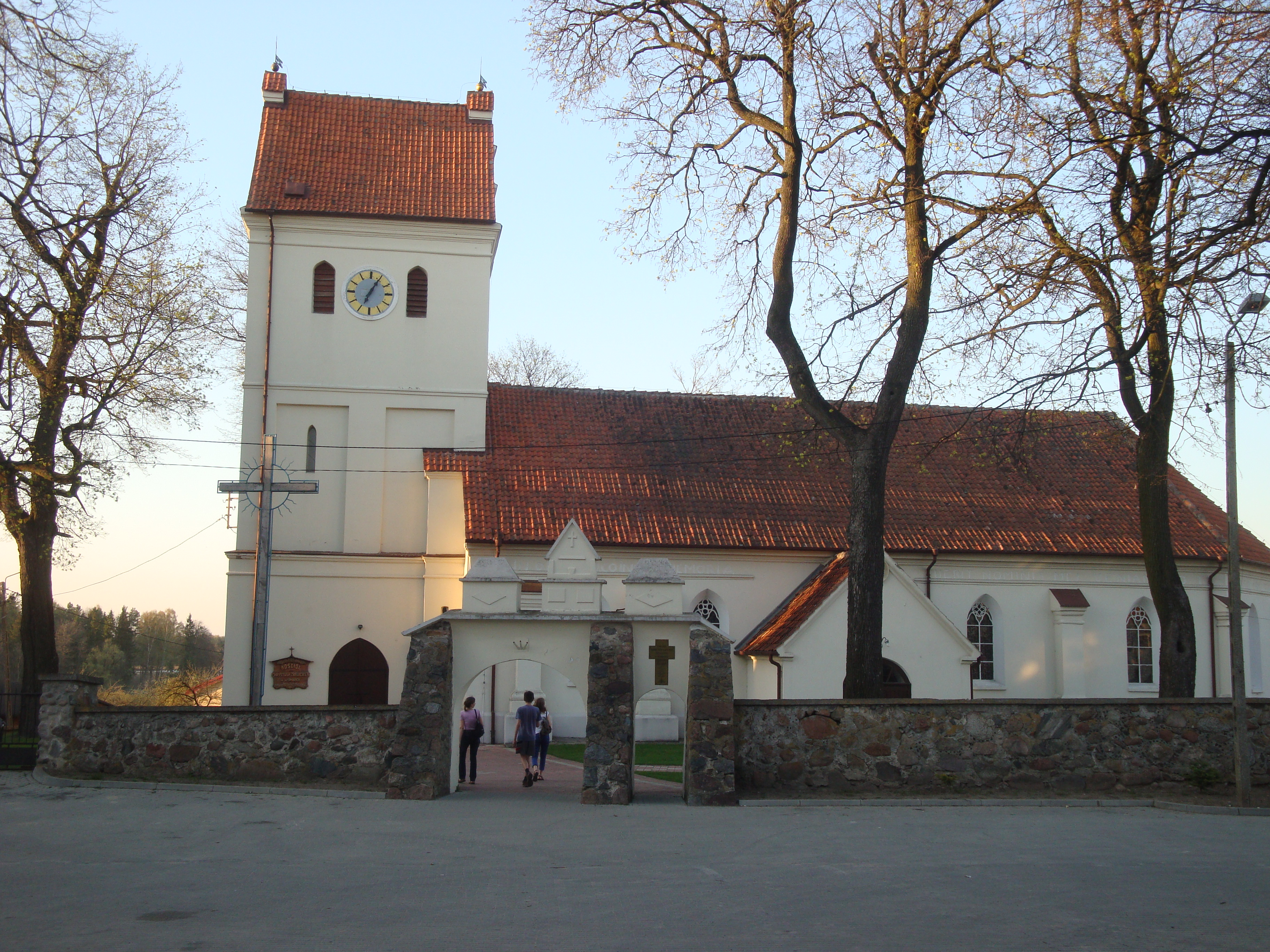 Salvator church in Wydminy, Poland